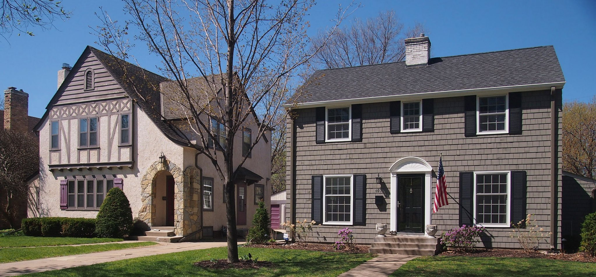 4602 & 4600 Casco Ave (built in 1925 and 1942, respectively), Country Club Historic District, Edina, USA. Viewed from the east-northeast.